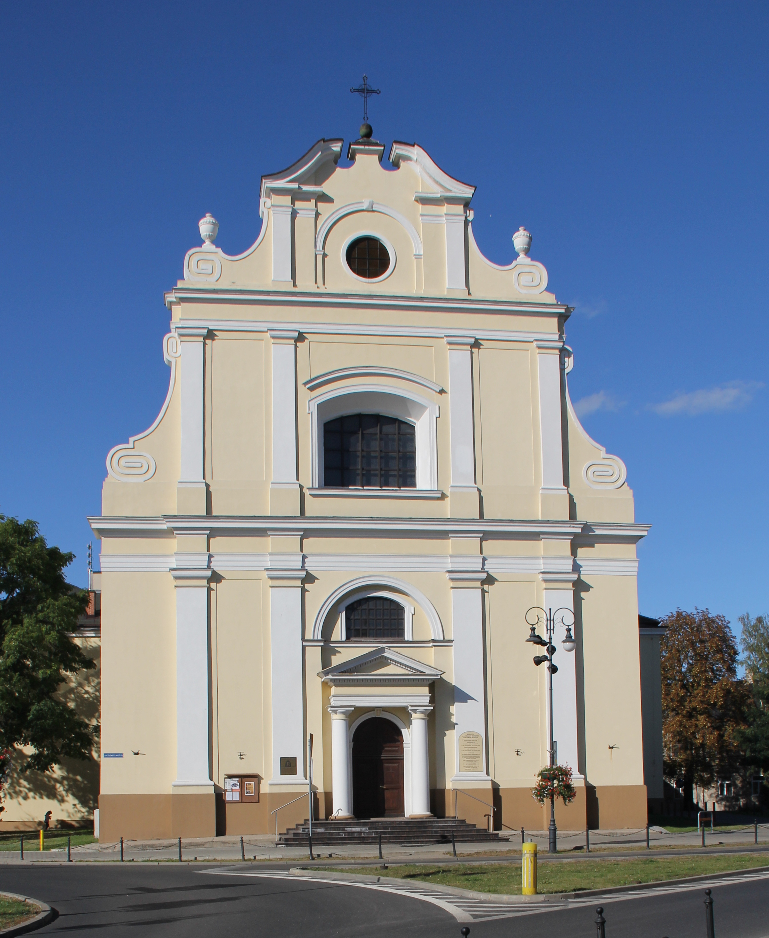 Radom - Holly Trinity Church.